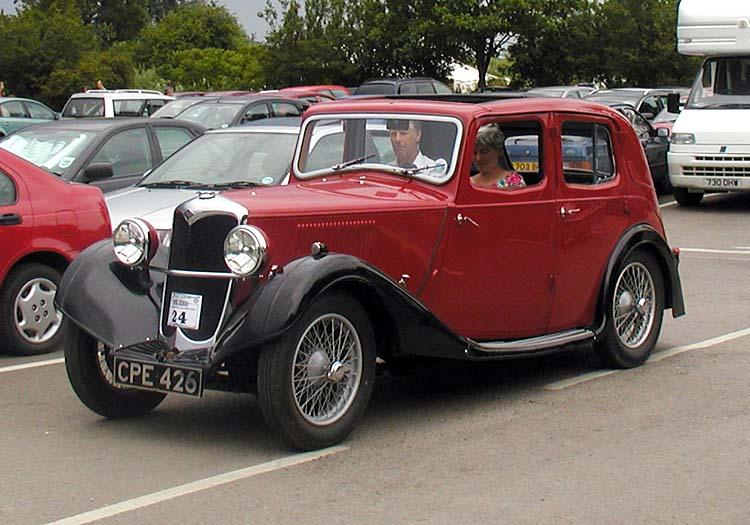 1935 Riley 12/4 Falcon at a Classics Rally in Bristol, England. (DVLA) first registered 5 March 1935, 1496cc